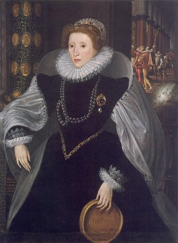 Elizabeth I of England, The Sieve Portrait. Elizabeth is portrayed as Tuccia, a Vestal Virgin who proved her chastity by carrying a sieve full of water from the Tiber to the Temple of Vesta. She is surround by symbols of imperial majesty including a column with an imperial crown at its base and a globe. The portrait is signed on the base of the globe 1583. Q. MASSYS ANT (for "of Antwerp").